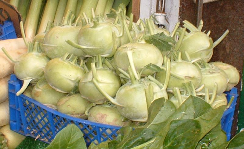 Kohl rabiTiếng Việt: Su hào (Brassica oleracea) in Brixton market. Taken by C Ford March 04.